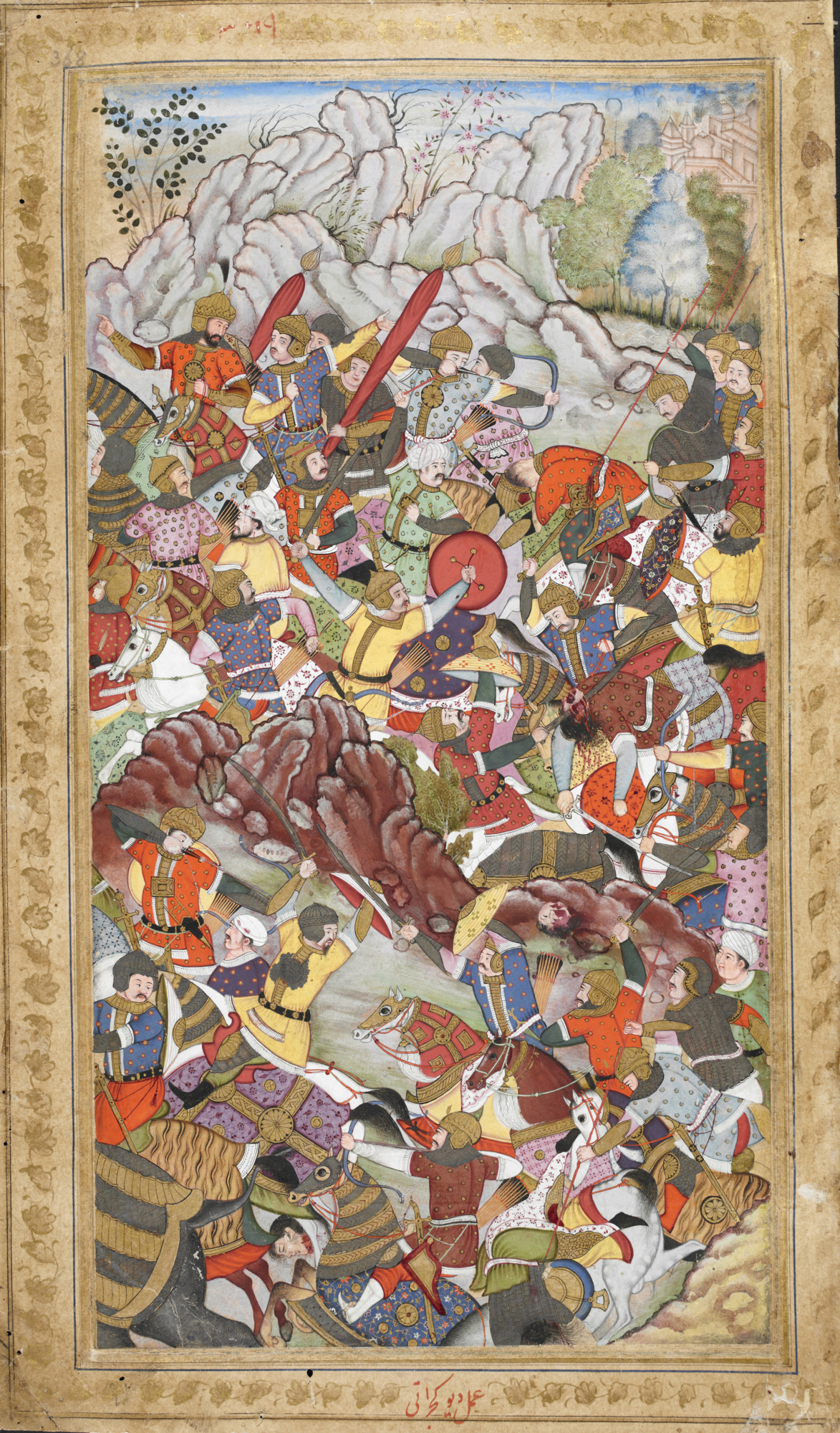 The battle of Panipat between the armies of Babur and Ibrahim Lodi (1526). An illustration to the Vaqi 'at-i Baburi, a Persian translation of the Baburnama, c.1590. This miniature is in the Mughal/Akbar style.